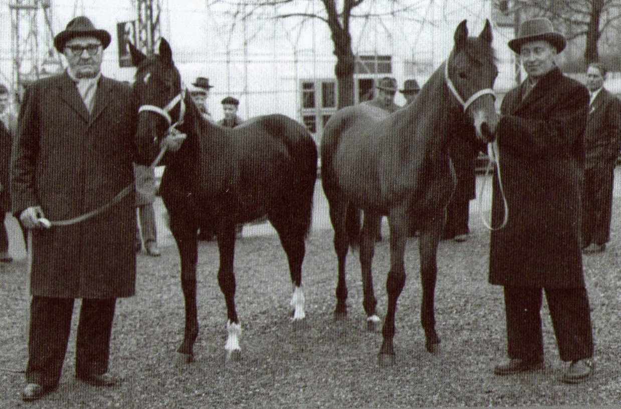 Finnish Olympic wrestler and harness racing driver Toivo Pohjala (left) and harness racer Tuomo Mäkelä in 1958 with two Orlov mares.